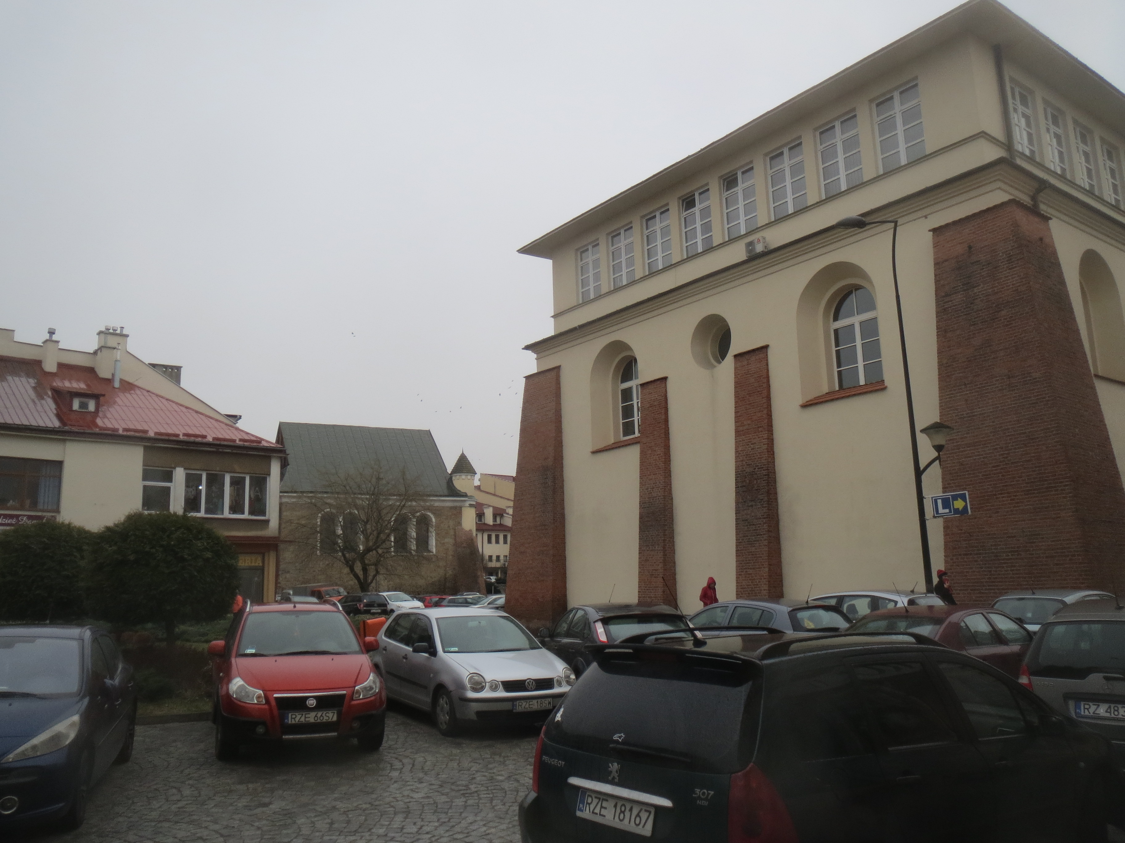 New Town Synagogue (Rzeszów) with Old Town Synagogue in the background